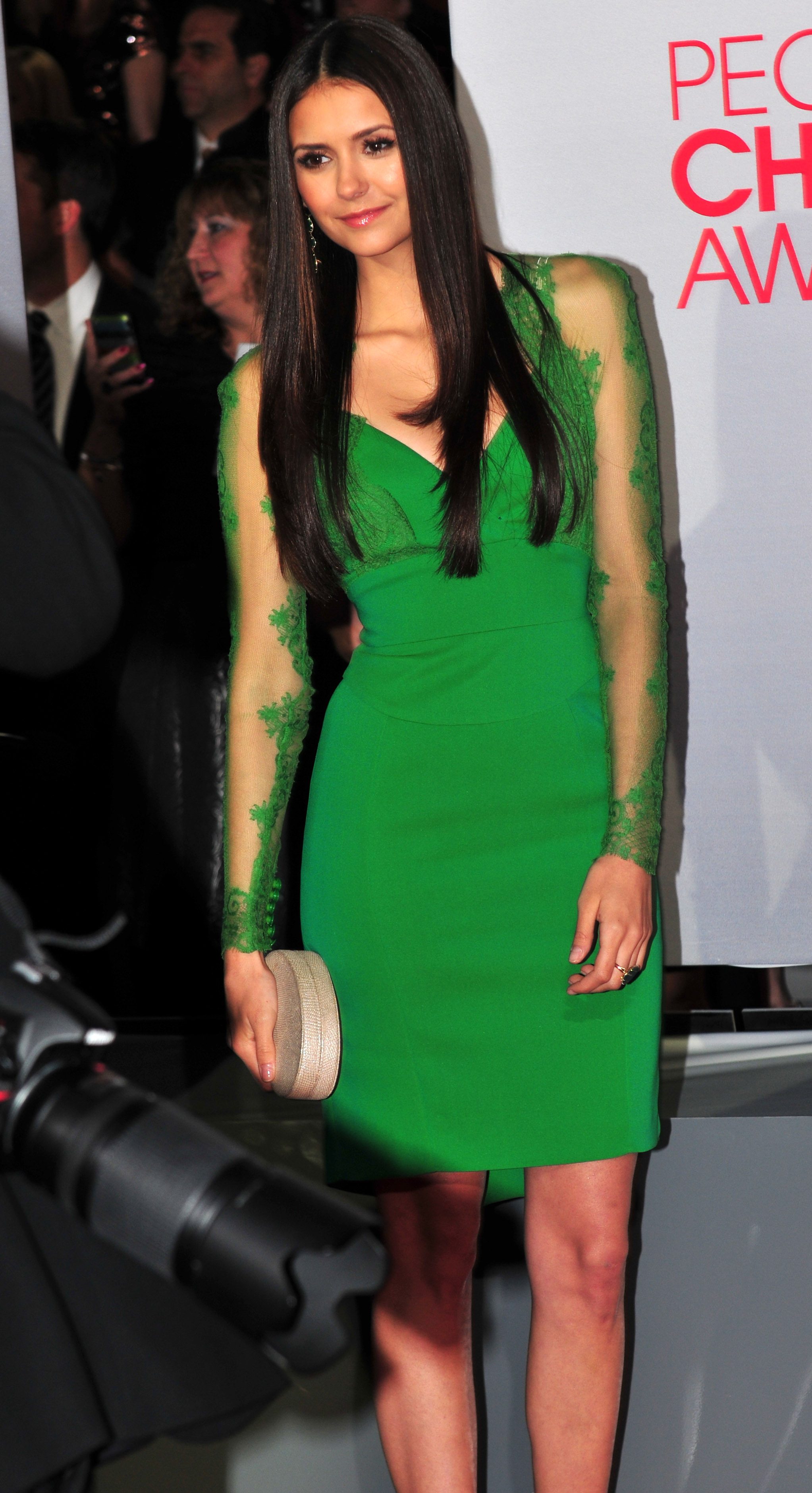 Nina Dobrev on the red carpet at the 38th People's Choice Awards on January 11, 2012, at the Nokia Theatre in Los Angeles, California. (JJ Duncan/ )